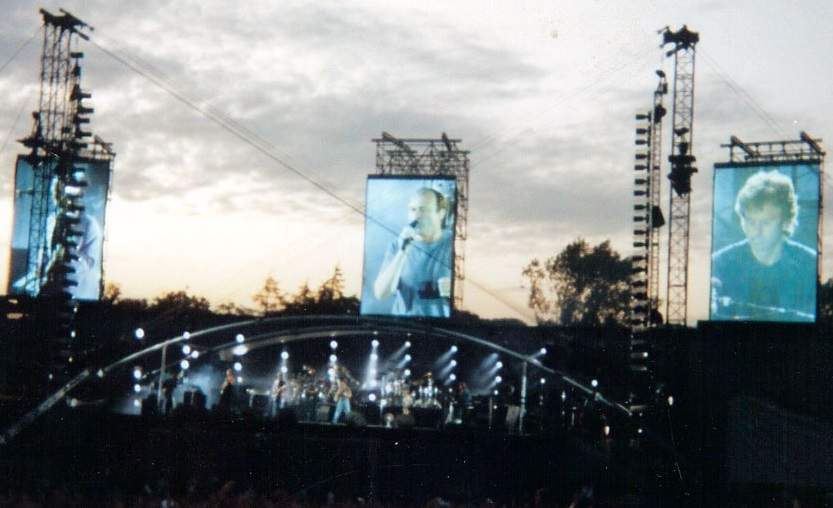 Photo taken during the performance by Genesis of "Land of Confusion" in Knebworth, England (August 2nd, 1992).